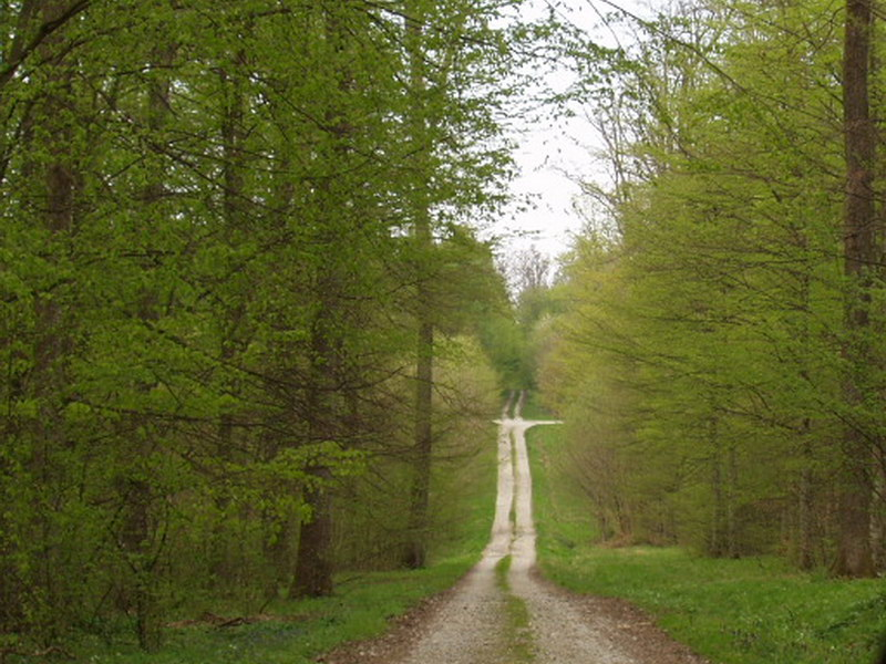 Remetinec - Forest Way